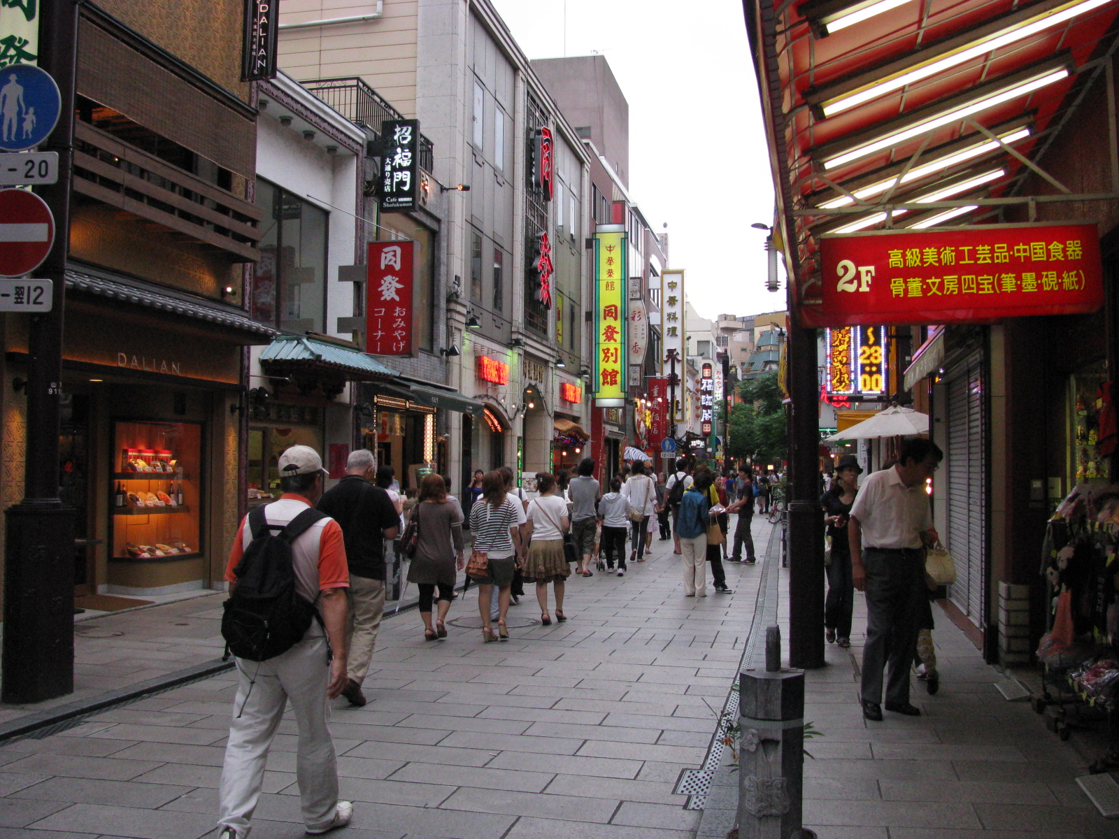 Yokohama Chinatown.